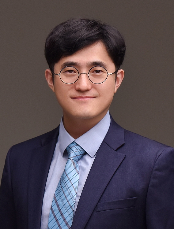 TAEJONG KIM, Ph. D.